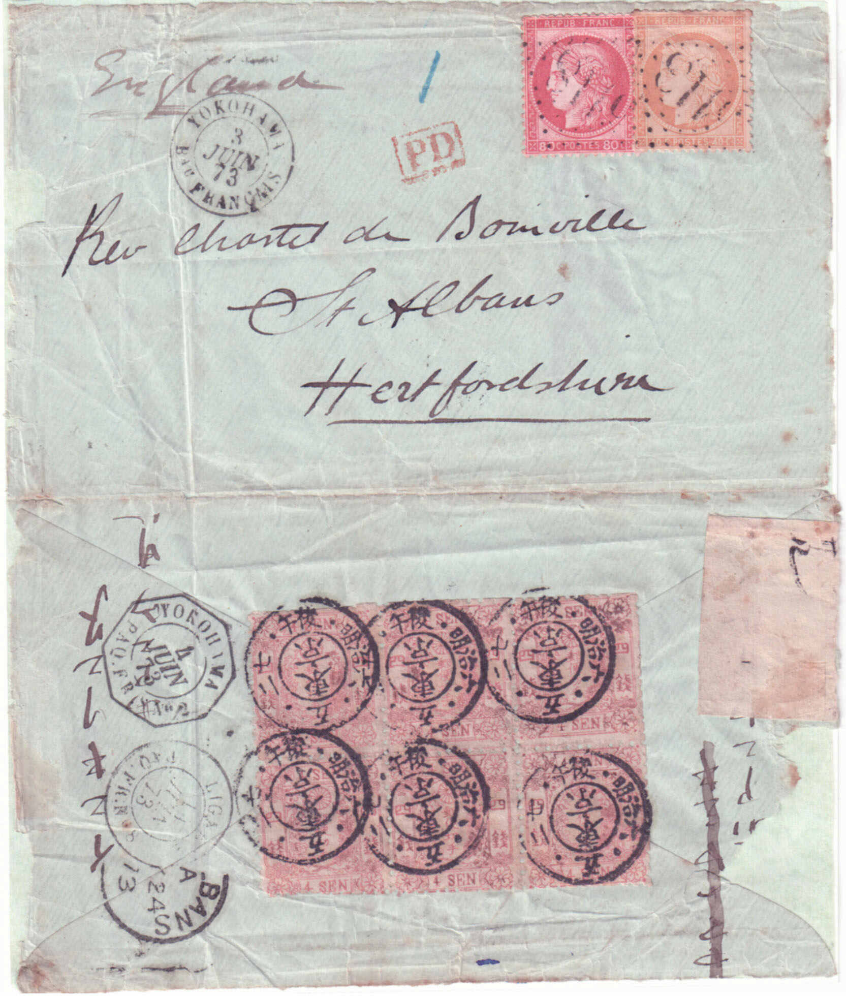 Japan - 1873 - BOINVILLE letter